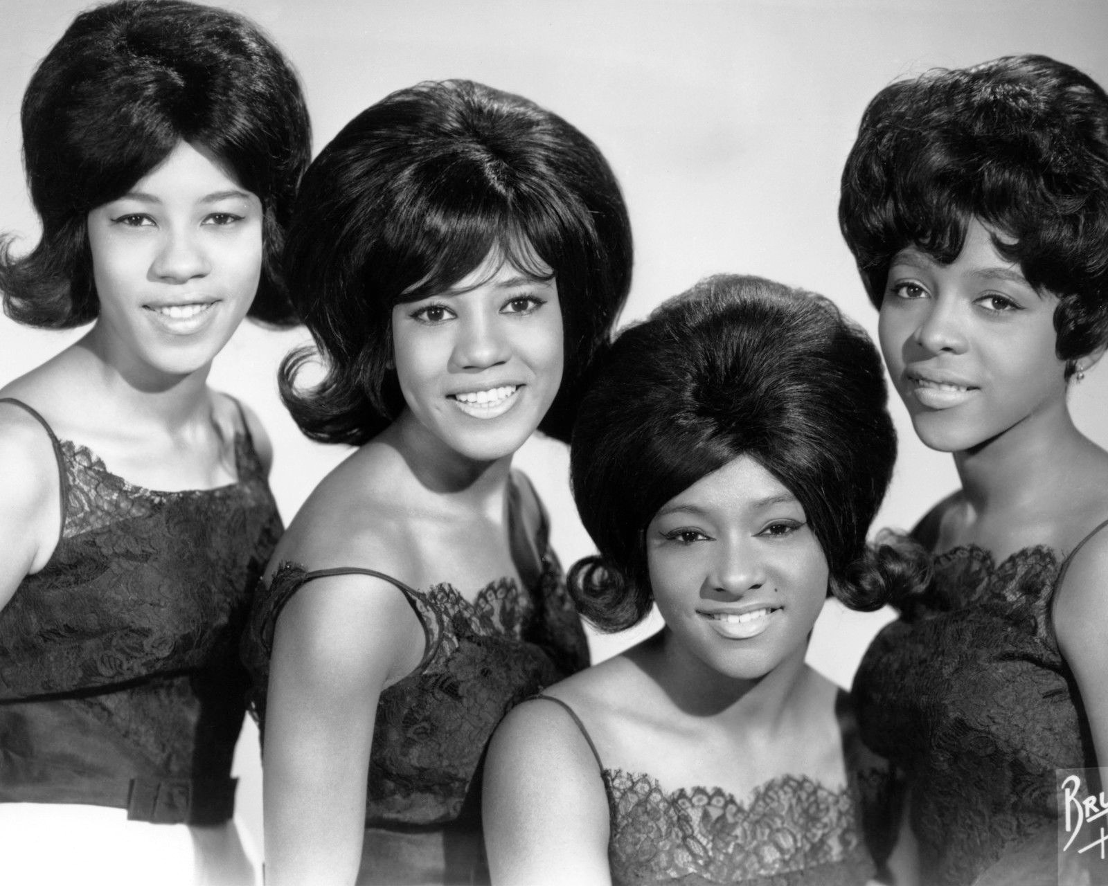 Photo of The Crystals. The photo is part of an ad for the teen club, Cinnamon Cinder, which was owned by one of the KRLA disk jockeys; the ad has no copyright marks. Further, the entire paper has no copyright marks or information.